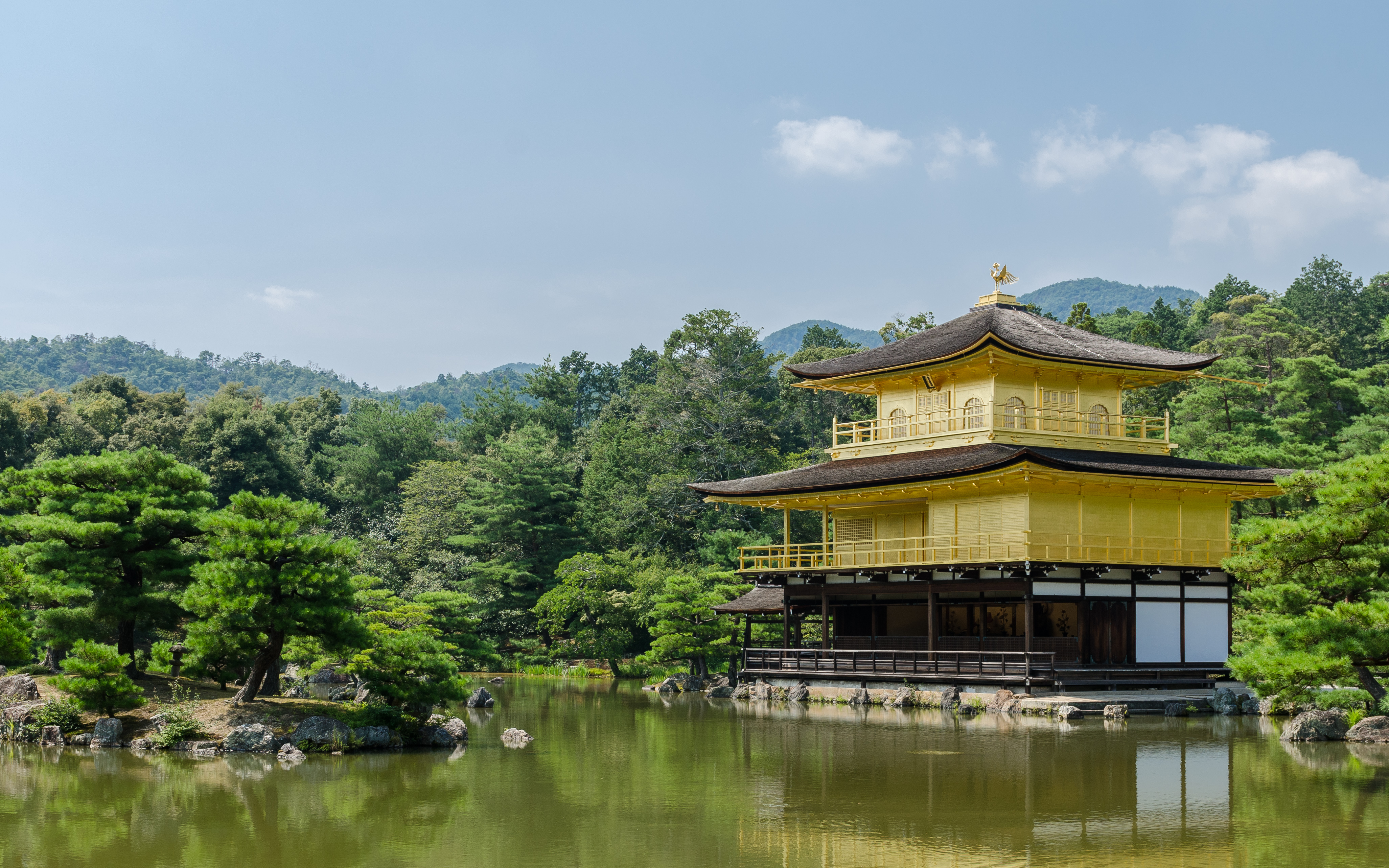 The Golden Pavillon, Kinkaku-ji, as seen from East